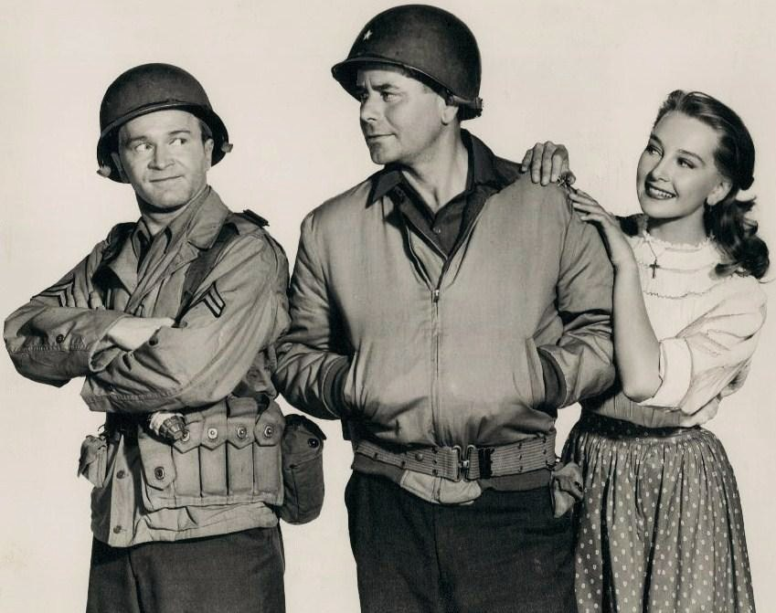 L. to R. : Red Buttons, Glenn Ford & Taina Elg in Imitation General - publicity still (original image damaged, modified and cropped : see source)